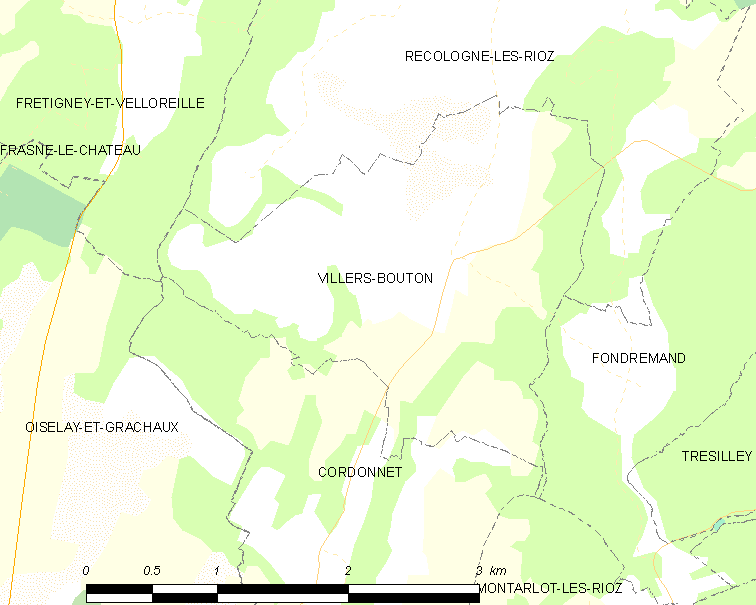 Map of French municipality